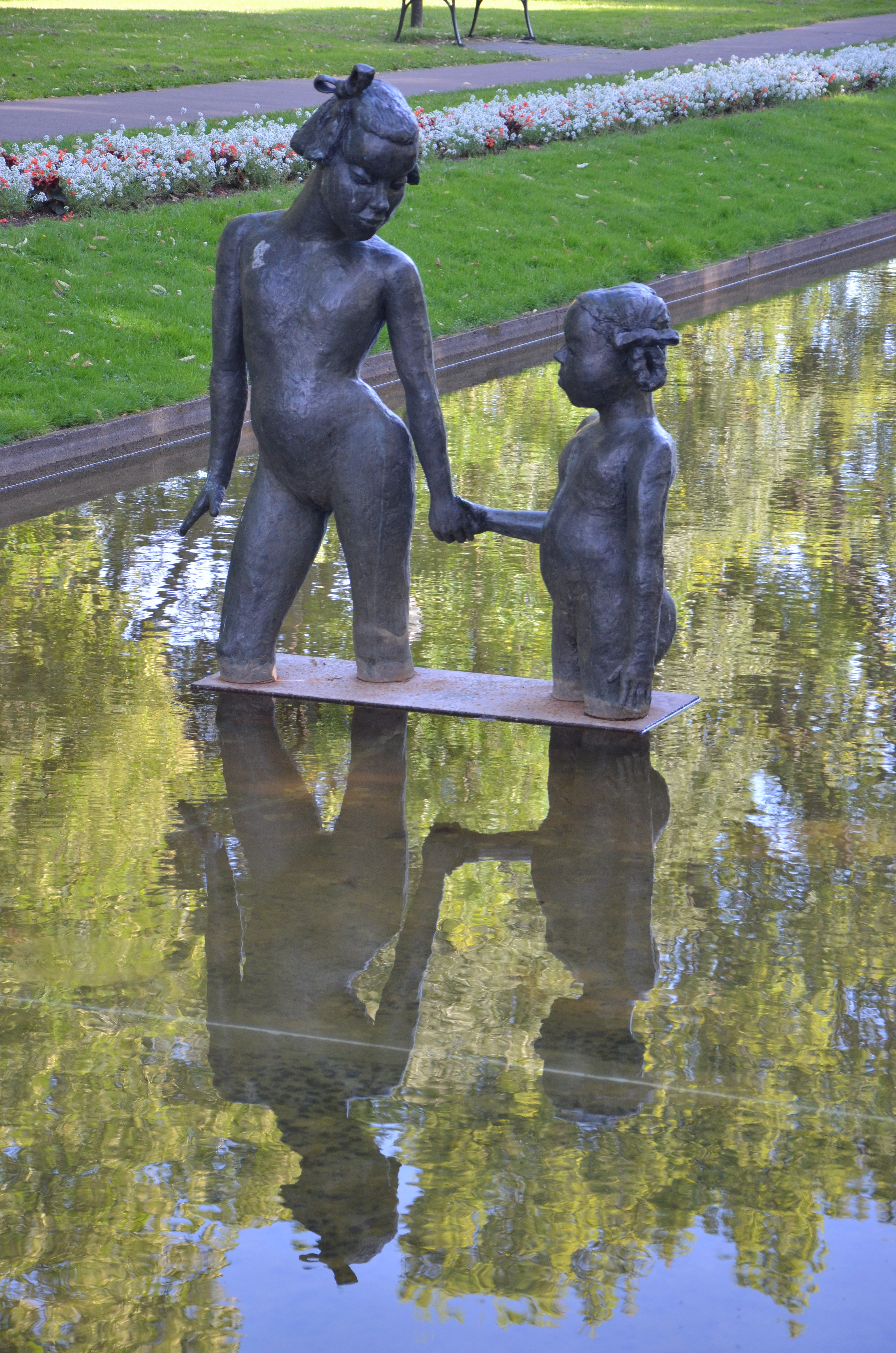 Hand i hand. sculpture by Lena Cronqvist, bronze, 2010, Museiparken in Karlstad, Sweden